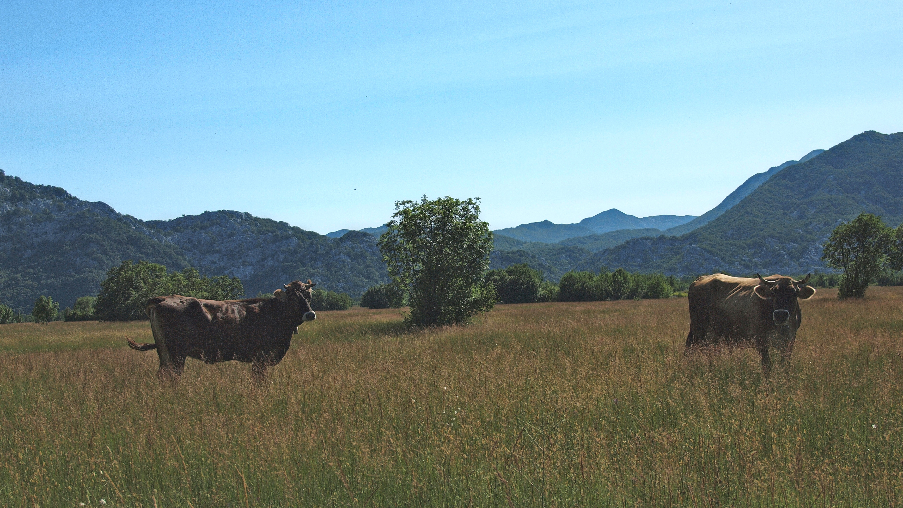 Busa cattle Dragalj polje leg. P.Cikovac